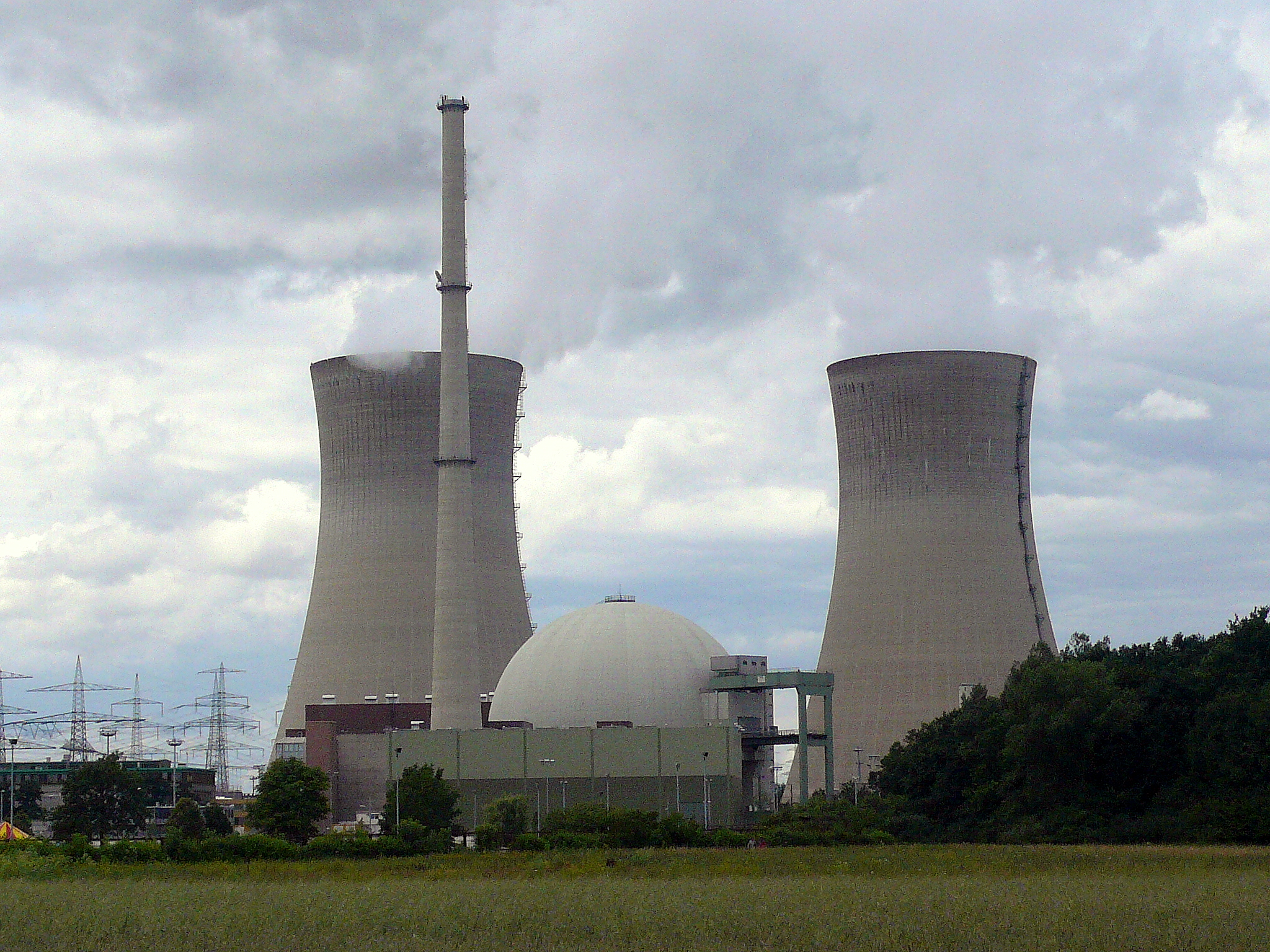 The Grafenrheinfeld Nuclear Power Plant in Germany. On the left and on the right the cooling towers, in the middle the pressurized water reactor.